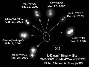 The ultra-cool binary star 2MASSW J0746425+2000321. The components are a L-dwarf and a brown dwarf. The total mass of the two components is only 14,6% of the Sun's mass